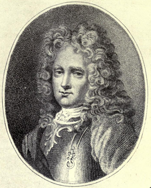 Engraving of a portrait of Antoine Hamilton by an unknown artist